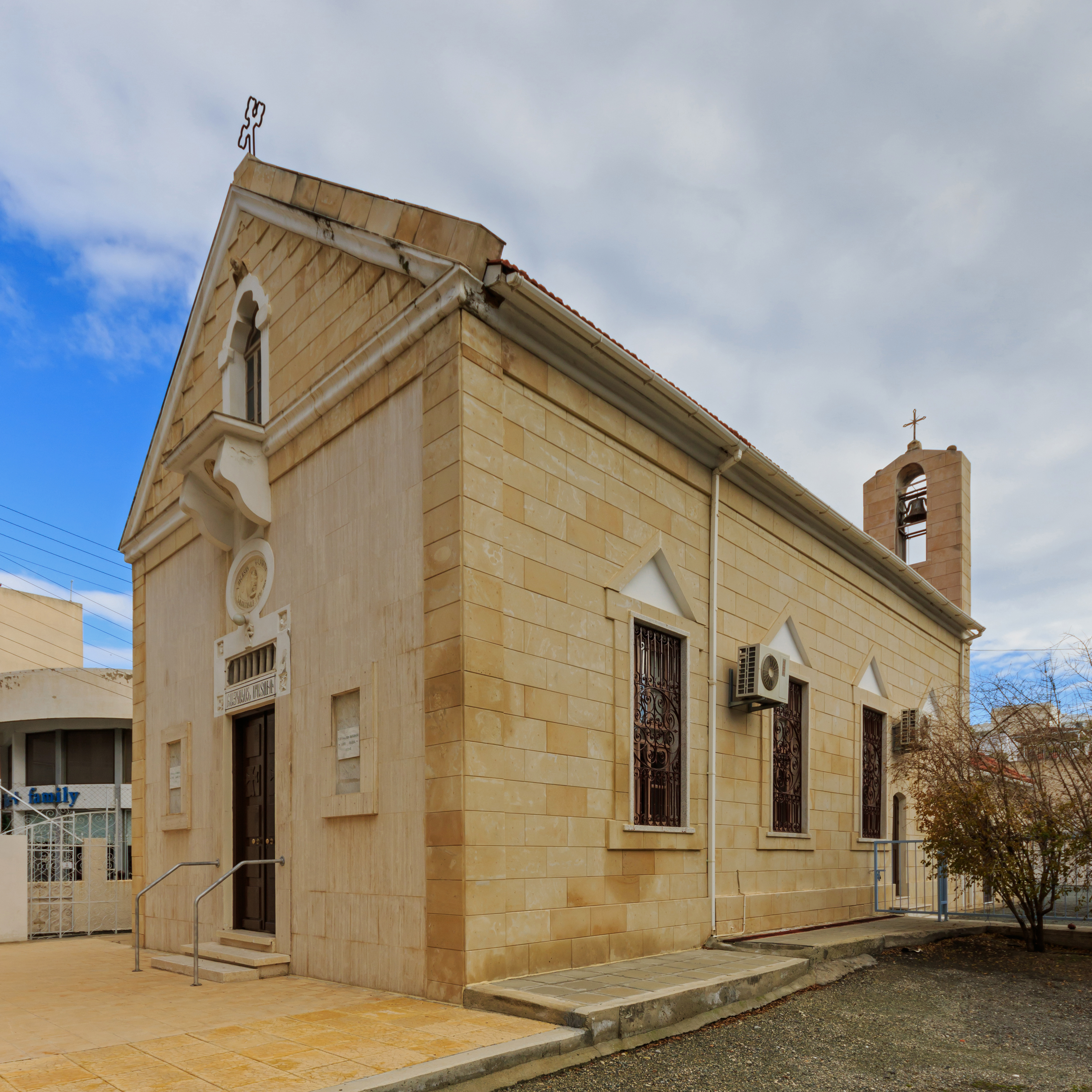 Armenian Church of St. Stephen in Larnaca, Cyprus